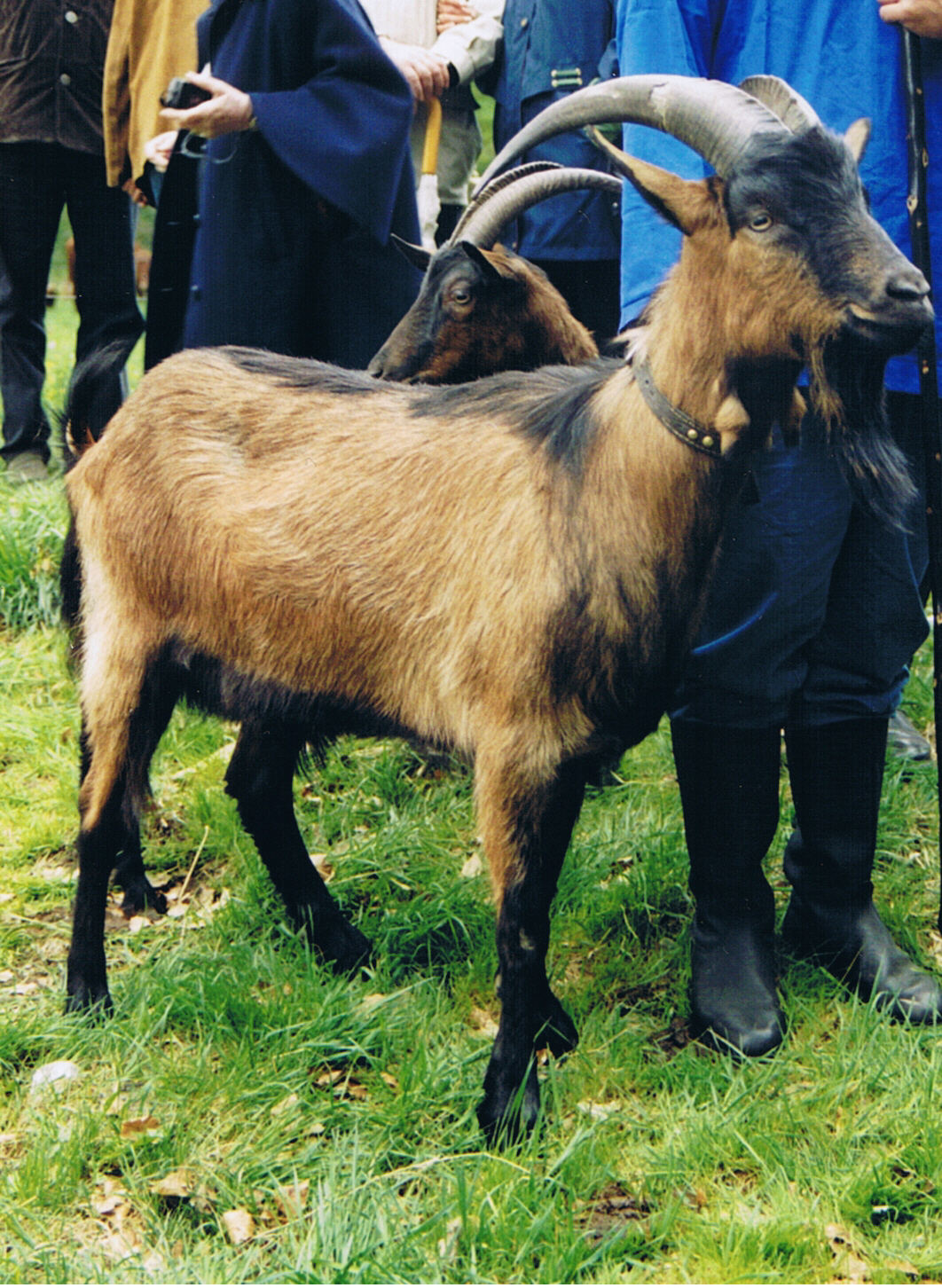 Harzziege in Rotheshütte